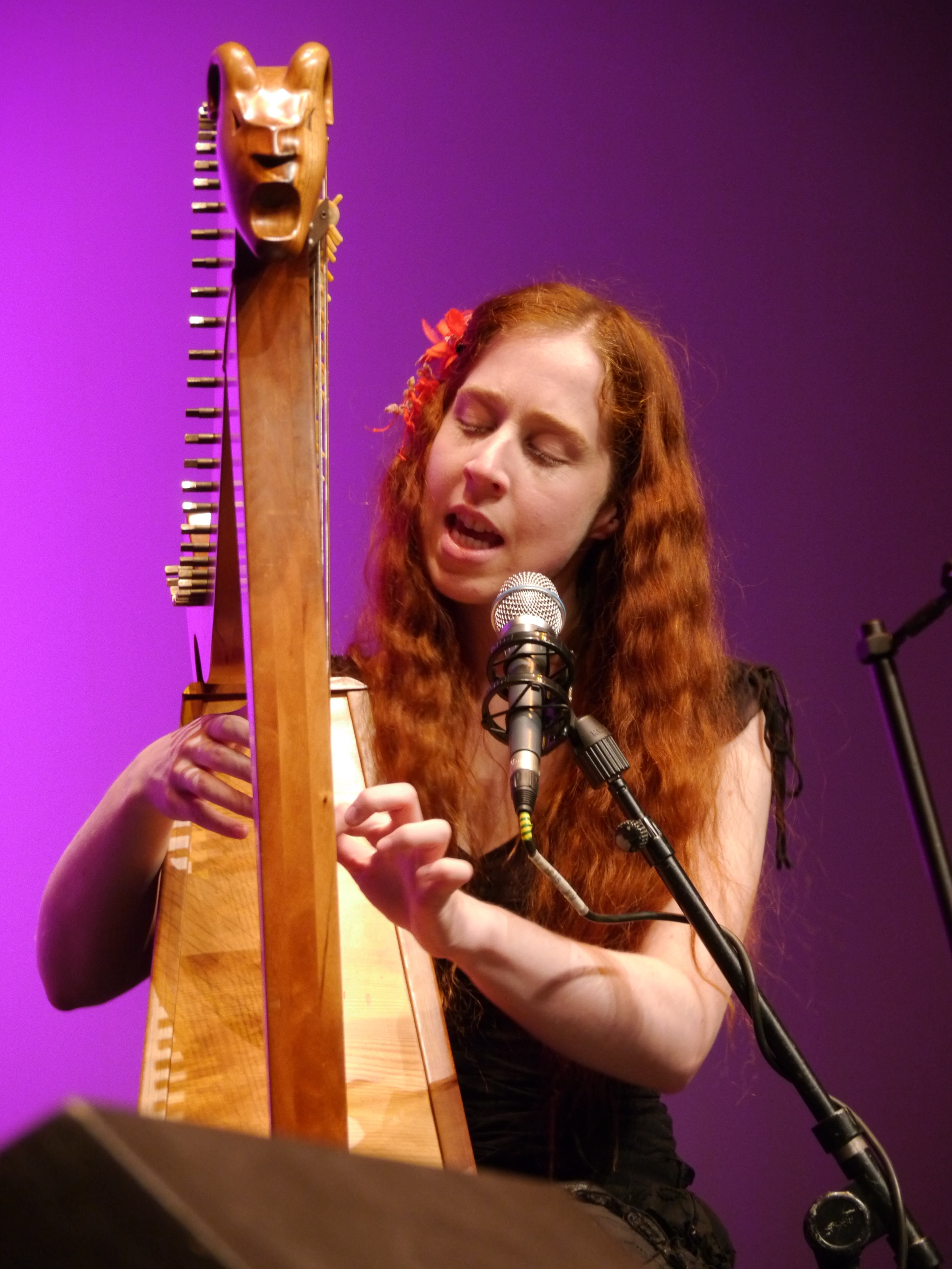 Mang'Azur festival of Toulon - official site